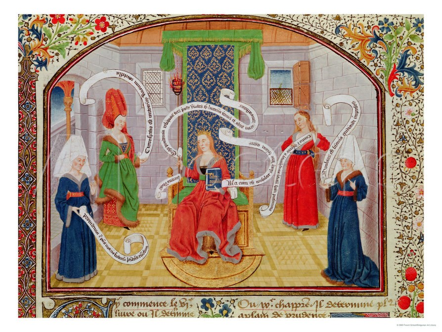 The Theory of Intellectual Virtues, from "Ethics, Politics and Economics" by Aristotle